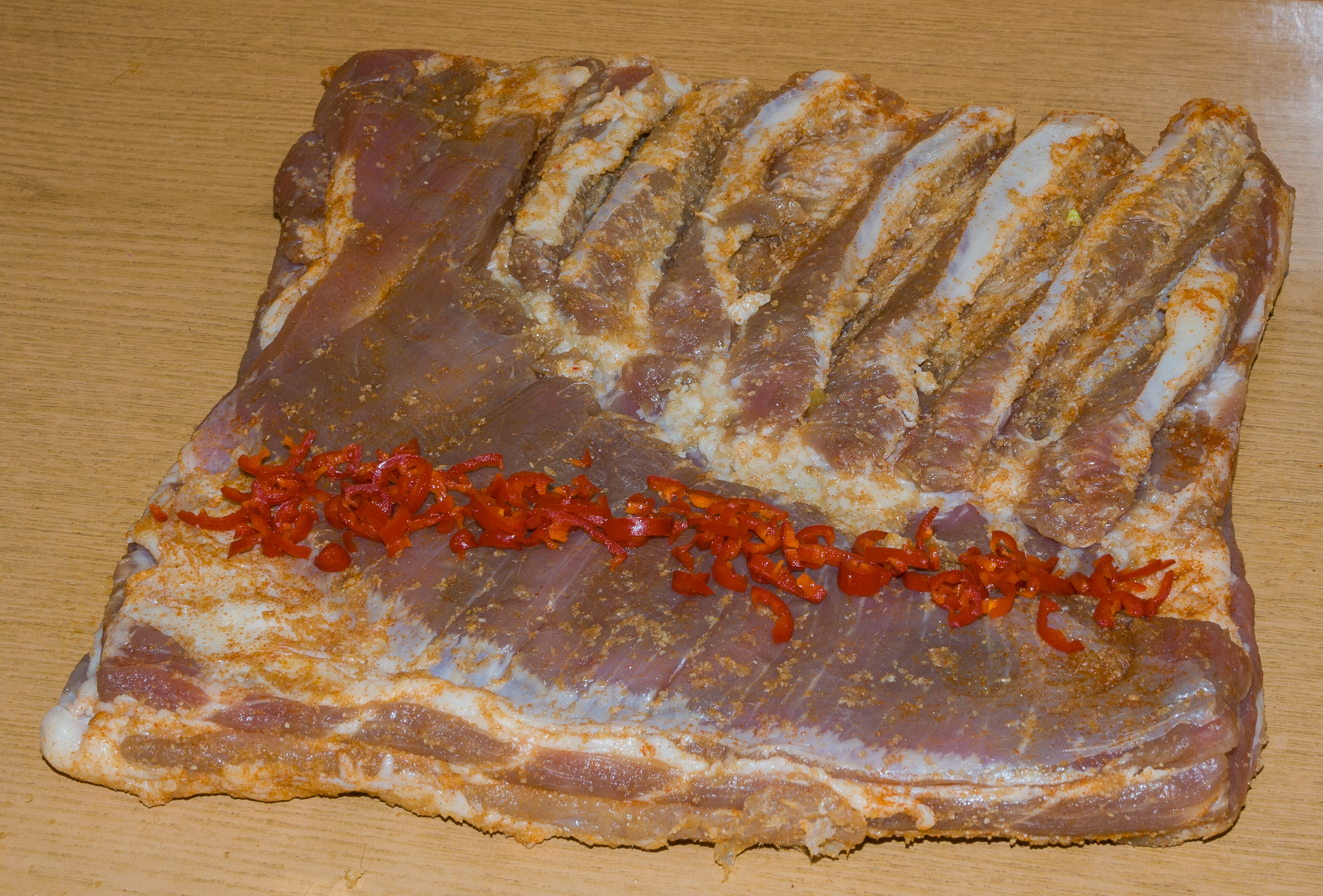 Boczek preparation, Gniezno, Poland